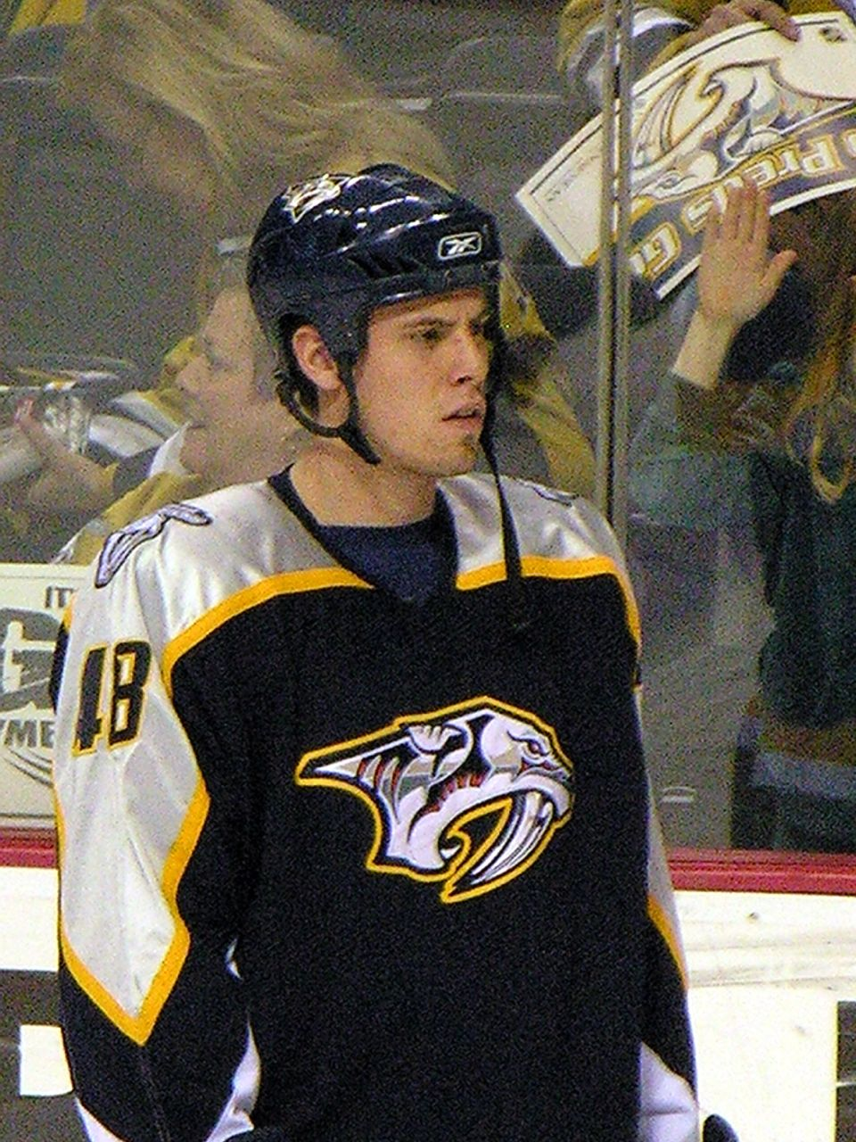 Shea Weber, ice hockey player for the NHL's Nashville Predators